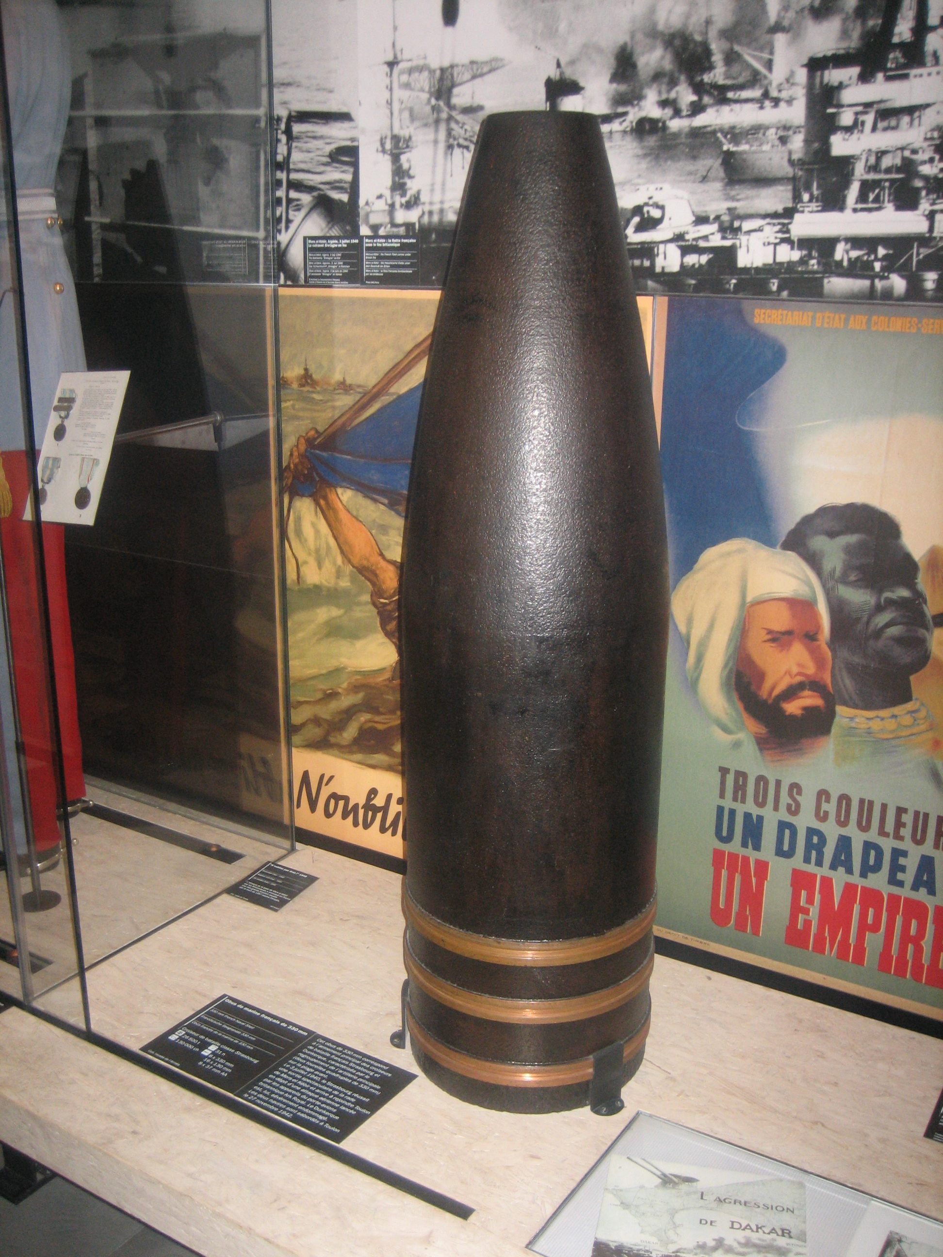 330mm shell for French Battleship Dunkerque and Strasbourg. Taken by me in September 2006 at the French Army Museum at Les Invalides. Translation of the text of the plaque: 'This 330mm shell corresponds to the principal armament of the French battlecruisers Dunkerque and Strasbourg, characterized by the grouping of the main armament (in two quadruple turrets) on the foredeck. On the 3rd of July 1940, the Strasbourg carried out a spectacular sortie from the road of Mers-el-Kébir and succeeded in reaching the port of Toulon in spite of an attack by British torpedo bombers from the aircraft carrier Ark Royal. The Dunkerque was severely damaged. The two ships were scuttled at Toulon on the 27th of November, 1942.